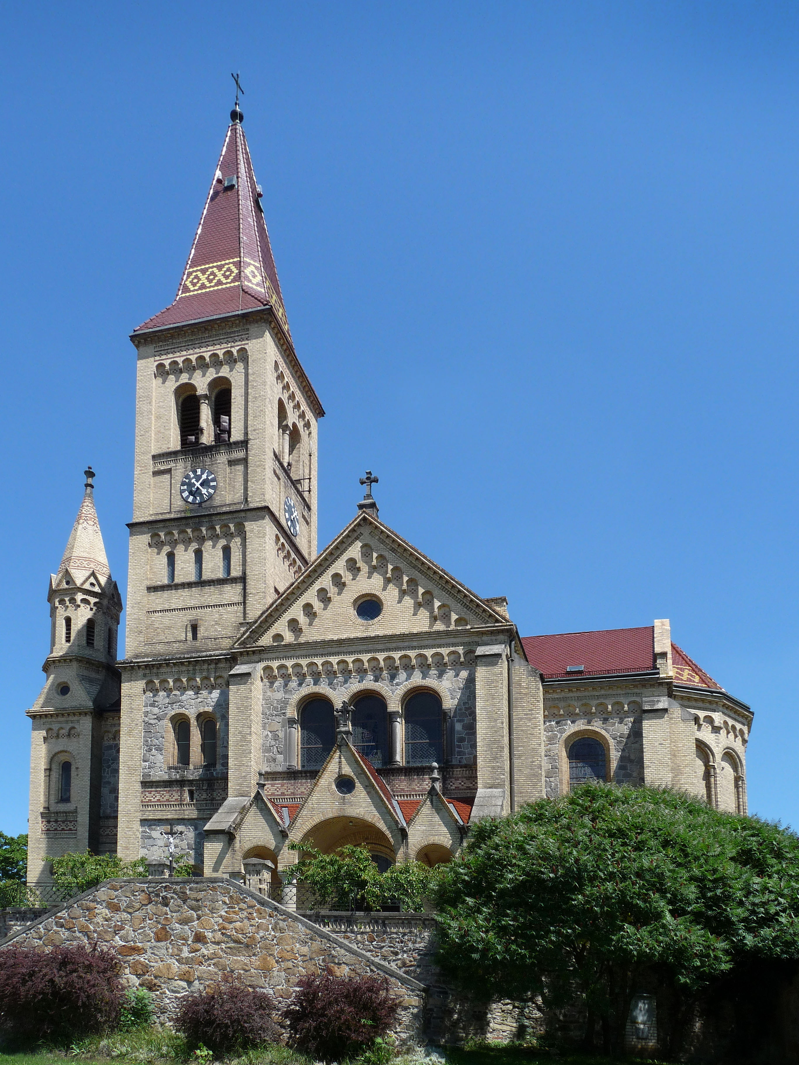 Saints Peter and Paul church from 1899-1900 in the village of Hosín, České Budějovice District, Czech Republic.